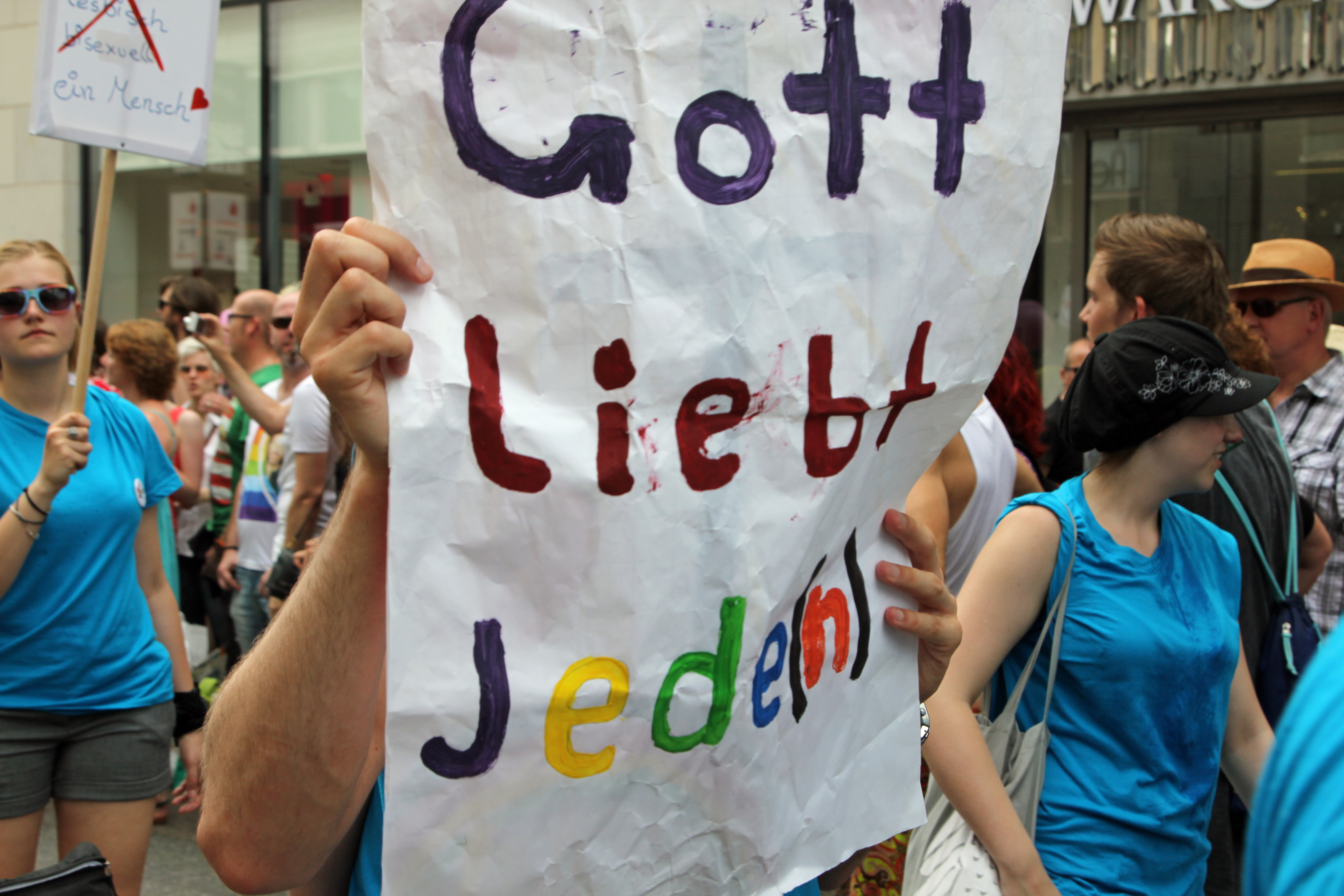 Cologne Pride - Parade on July 5th, 2015